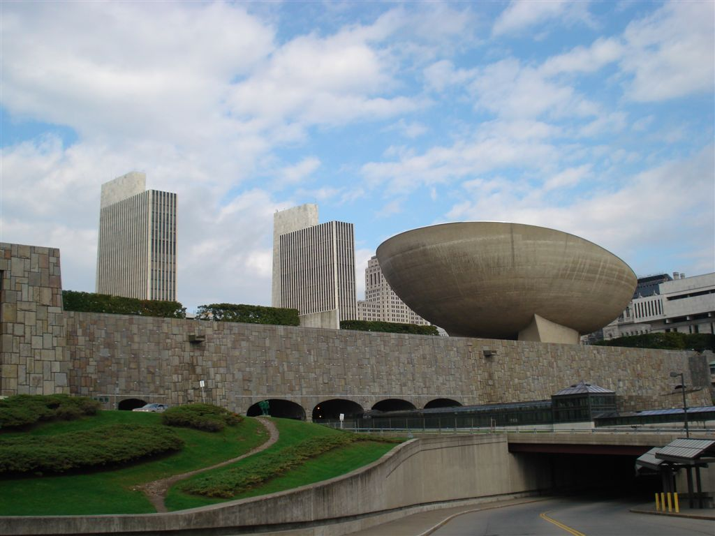 Shot taken 10/20/07 from Eagle Street.